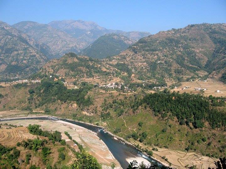 wami t pic